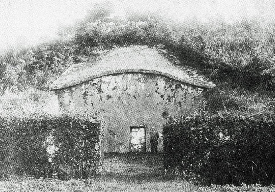 Tomb of Sho Shoken, Haneji Oji Choshu.